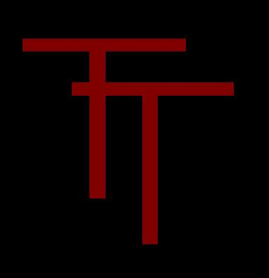 Insignia of 50th (Northumbrian) Division